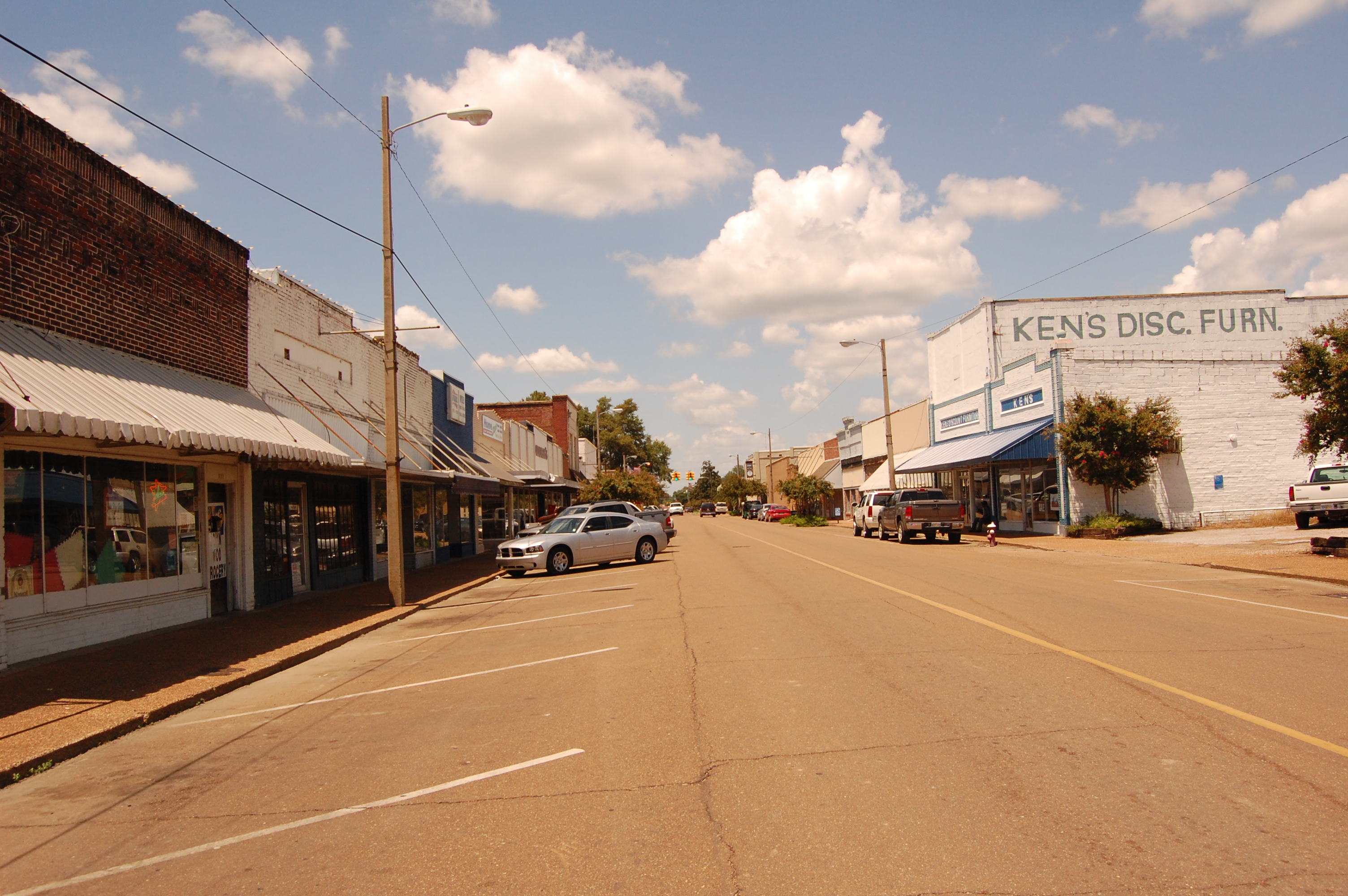 Carol Mohamed Ivy - Mama's Dream World - Belzoni, MS Project: Delta Lebanese Photo by Amy Evans Streeter Summer 2010